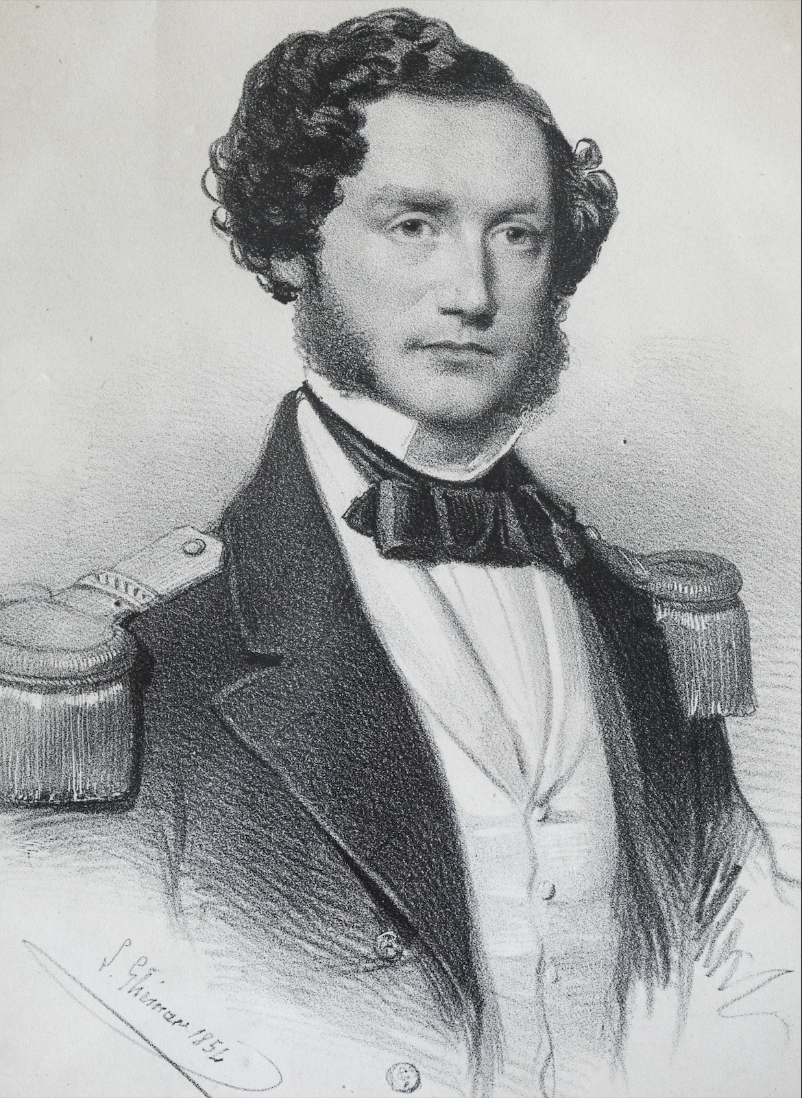 Portait of Guillaume Delcourt